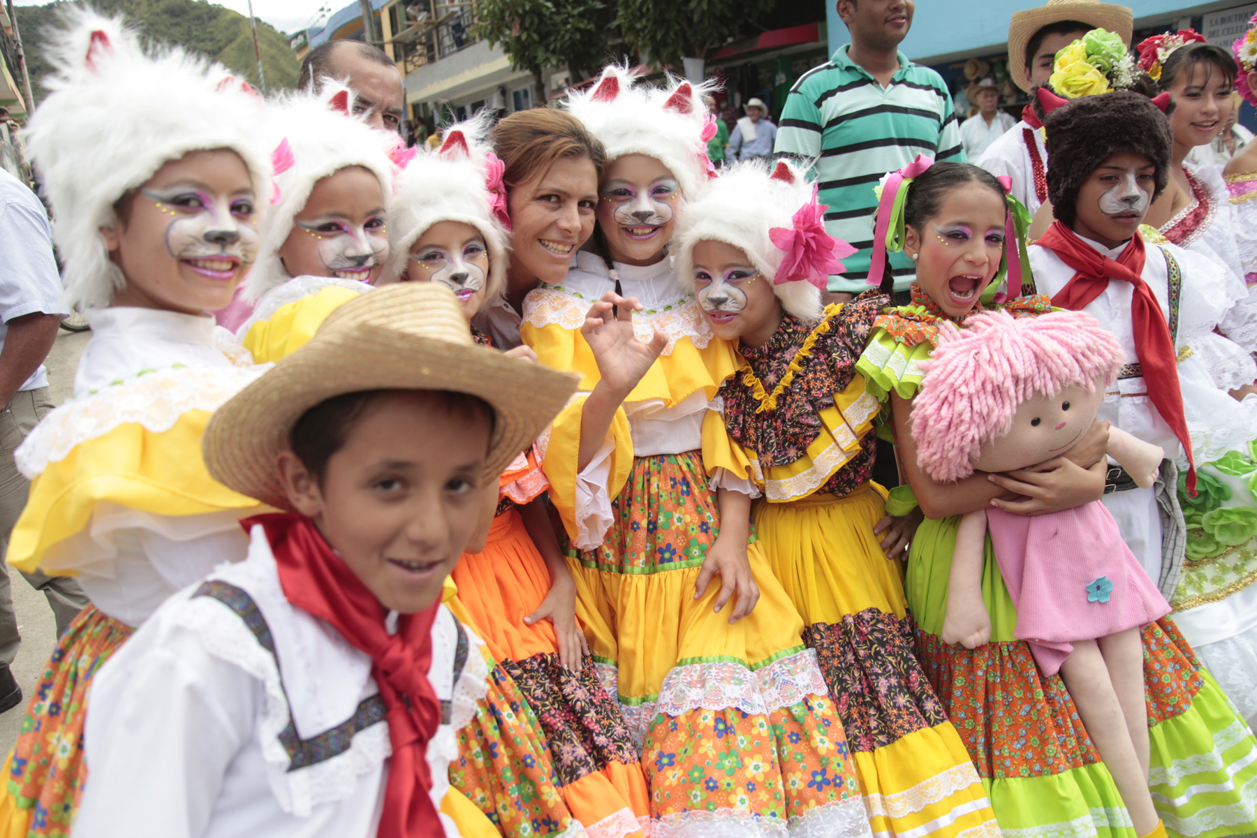 Children participating in the festival El Ministro TIC, Diego Molano Vega y la Viceministra María Carolina Hoyos, visitaron el municipio de Santa María, Huila, para hacer entrega de equipos portátiles para beneficiar la práctica educativa de más de 1.000 estudiantes.